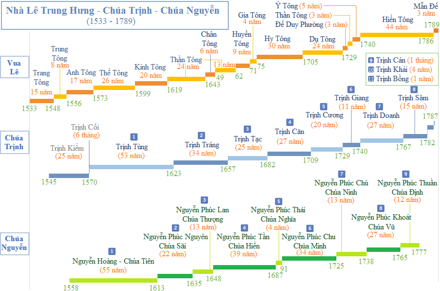 Niên Biểu Lê Trung Hưng - Chúa Trịnh - Chúa Nguyễn